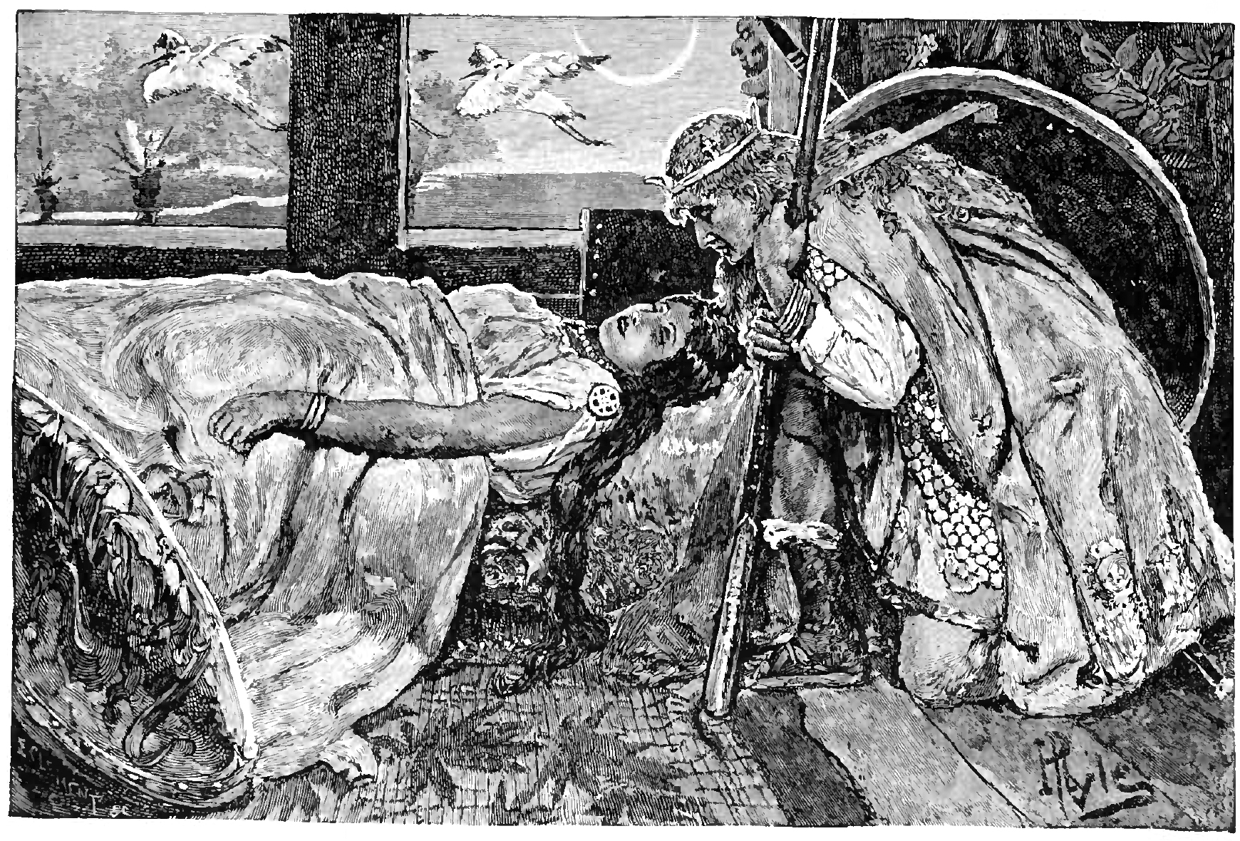 Captioned as "The Awakening of Brunhild". Siegfried wakes Brünnhilde, as described in the Nibelungenlied.